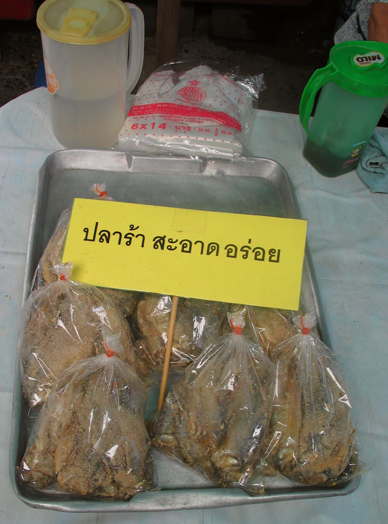 Pla Raa - fermented fish Thai style. The sign reads: "Pla Raa, clean and delicious". Don Wai Market, Nakhon Pathom province, Thailand.